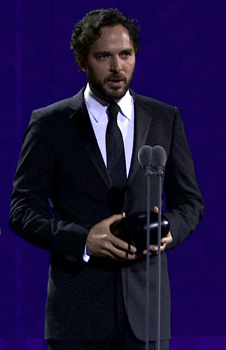 Miércoles 7 de noviembre de 2018 En el Teatro de la Ciudad Esperanza Iris, se realizó la entrega de Premios Fénix a lo más destacado de la cinematografía Iberoamericana, en la ceremonia actores, directores y personalidades del mundo cinematográfico, presentadores hicieron entrega de los premios. Asimismo se realizaron espectáculos musicales. Fotografía: Milton Martínez / Secretaría de Cultura CDMX